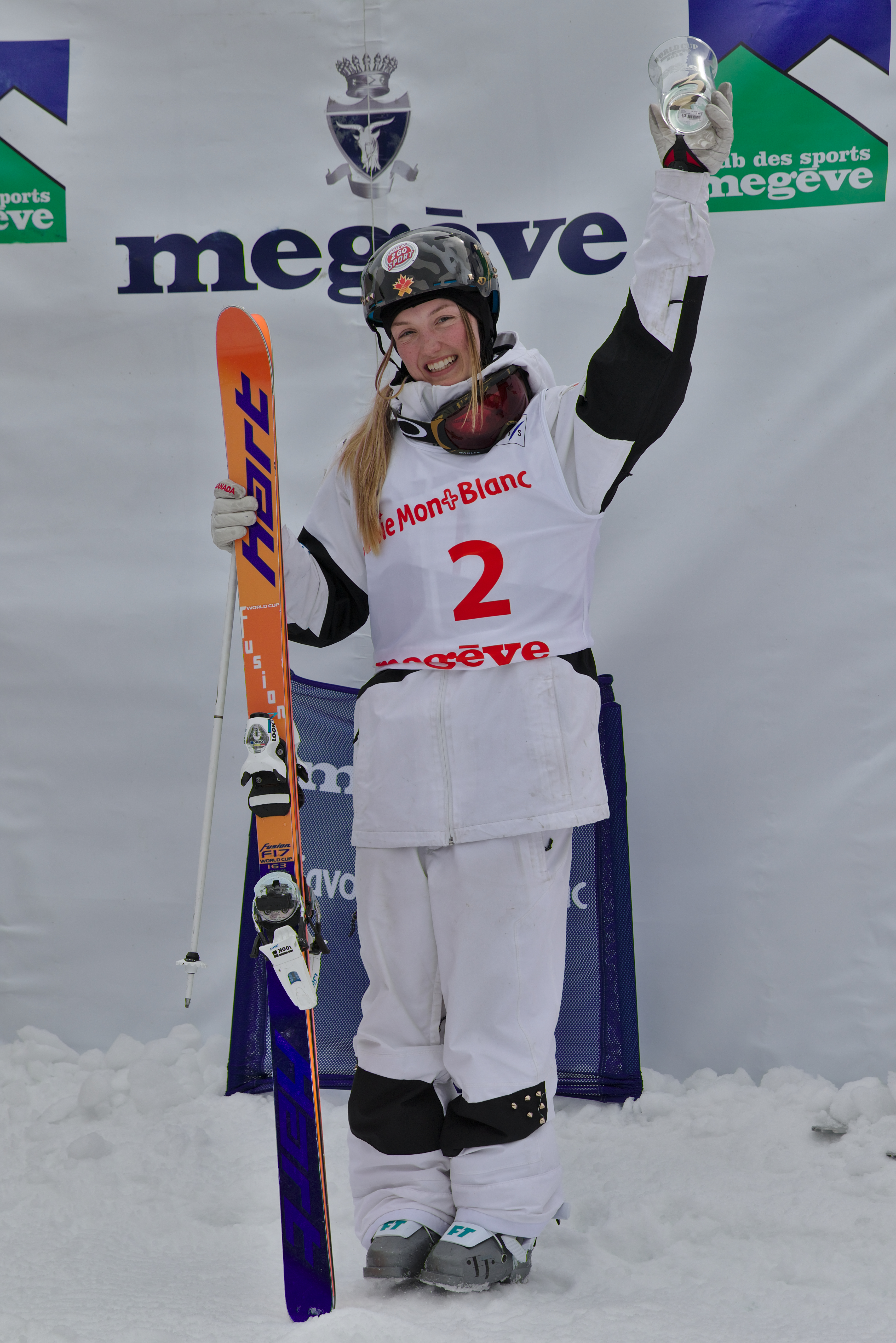 FIS Moguls World Cup 2015 Finals - Megève - 20150315 - Justine Dufour-Lapointe